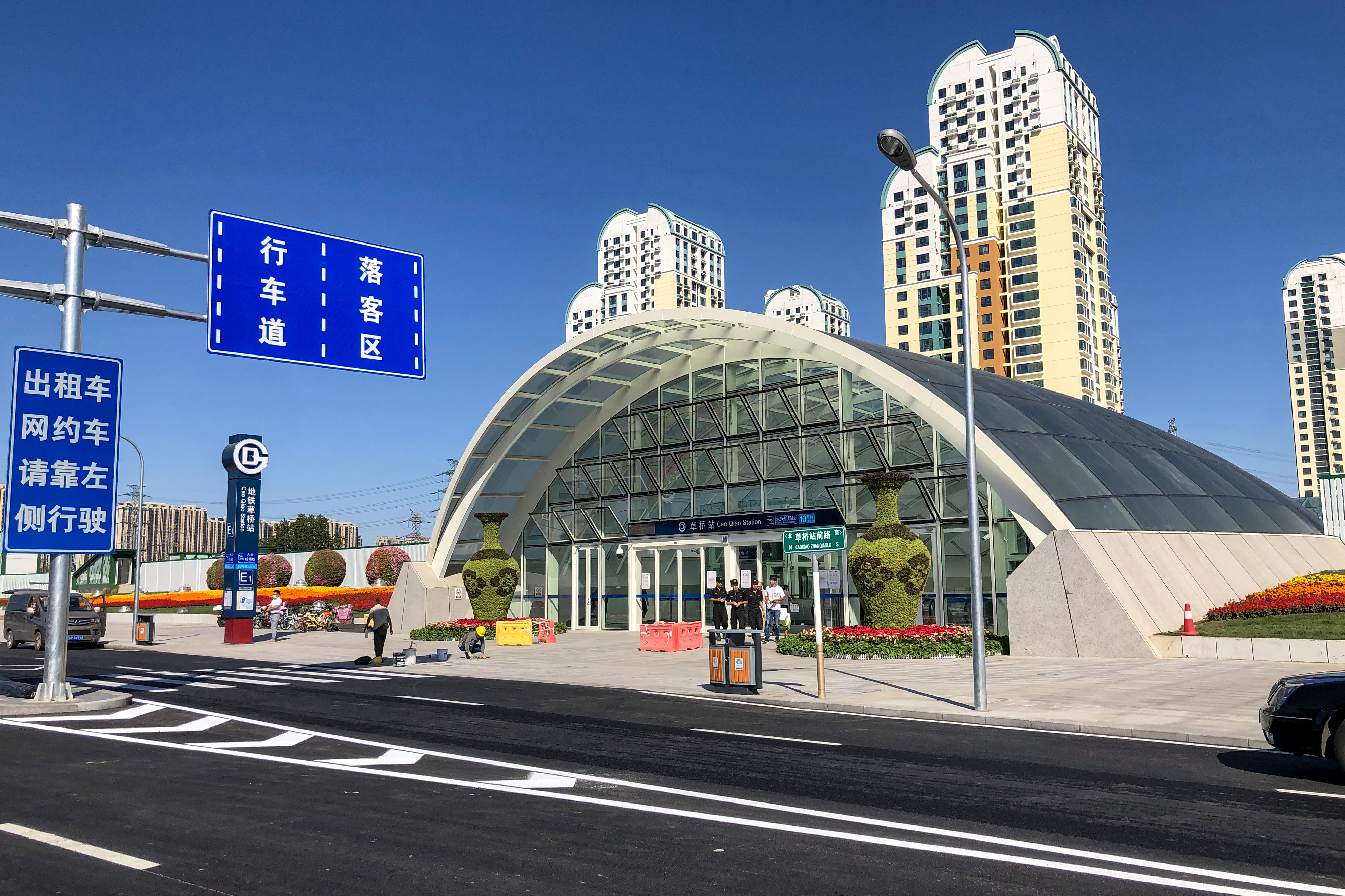 Exit E1, facing Jingkai Highway, is the main exit/entrance for Daxing Airport Express, and a drop-off area is also on the front. It is said that PKX would commence operations on 25 September 2019, but...